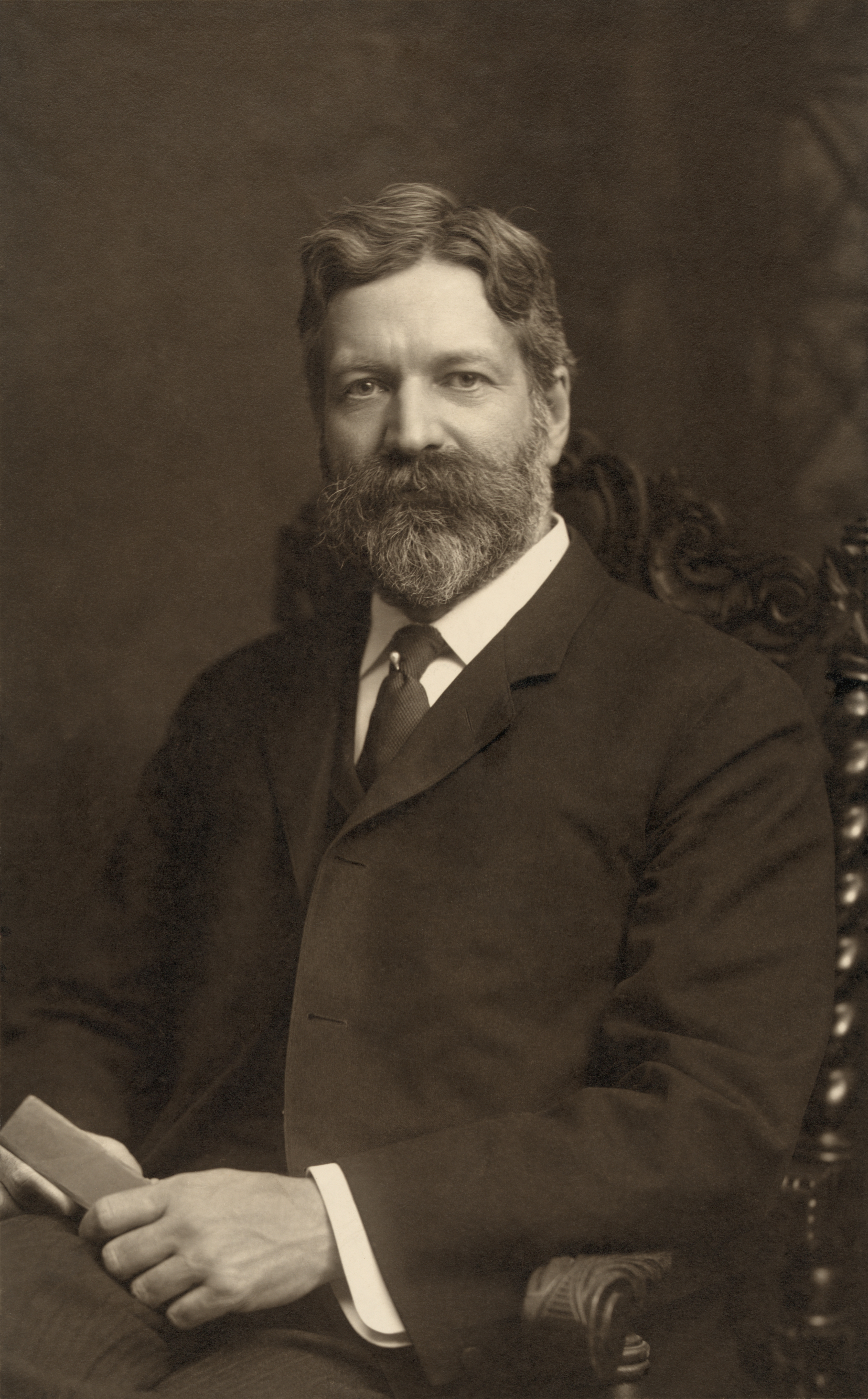 George Foster Peabody (1852-1938), half-length portrait, sitting, facing front, with hands on lap